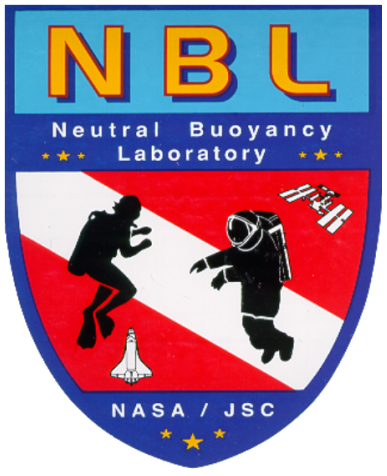 Neutral Buoyancy Lab logo